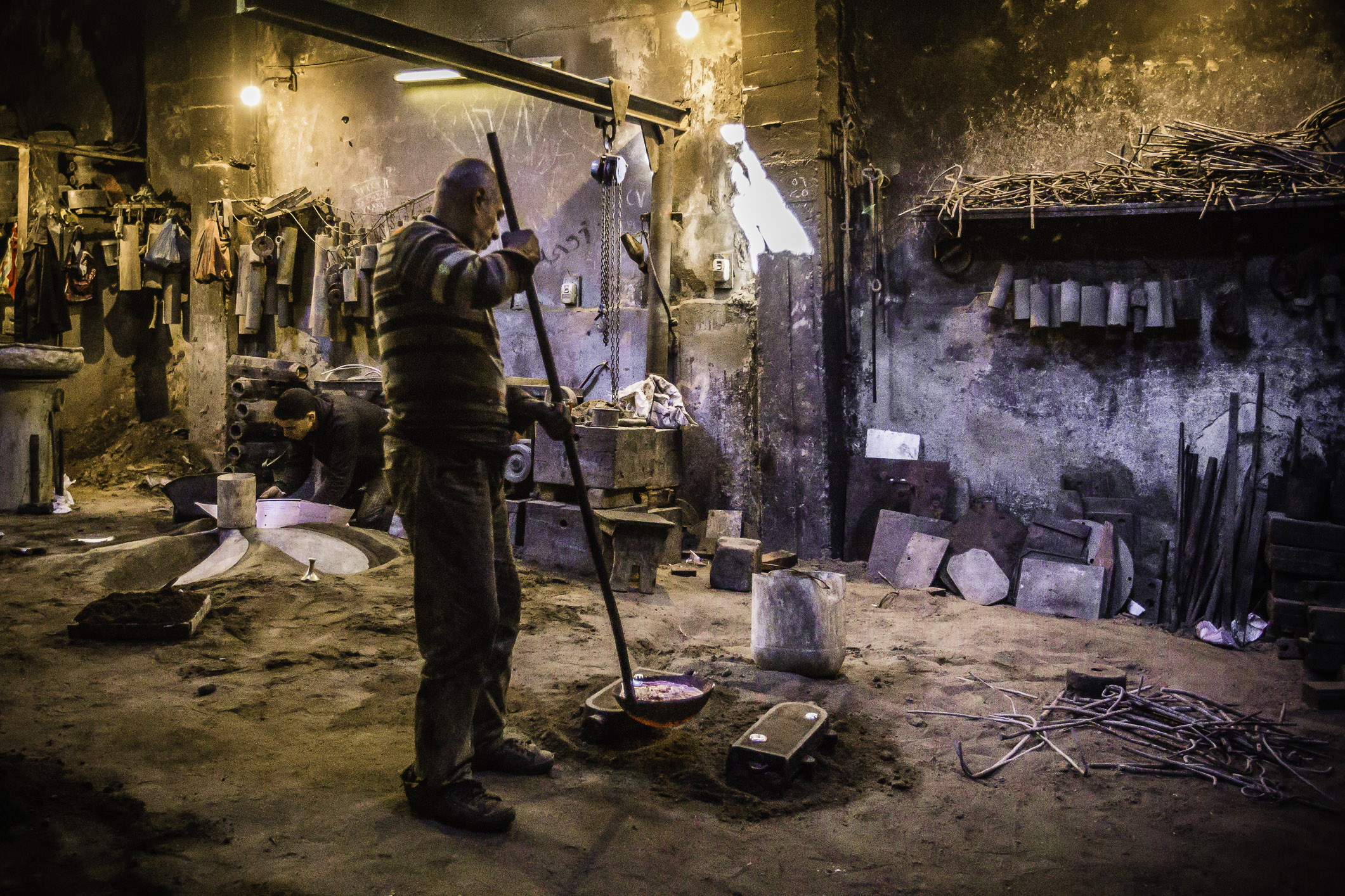 preparing of molten iron in a handy tundish This is an image of "African people at work" from Egypt